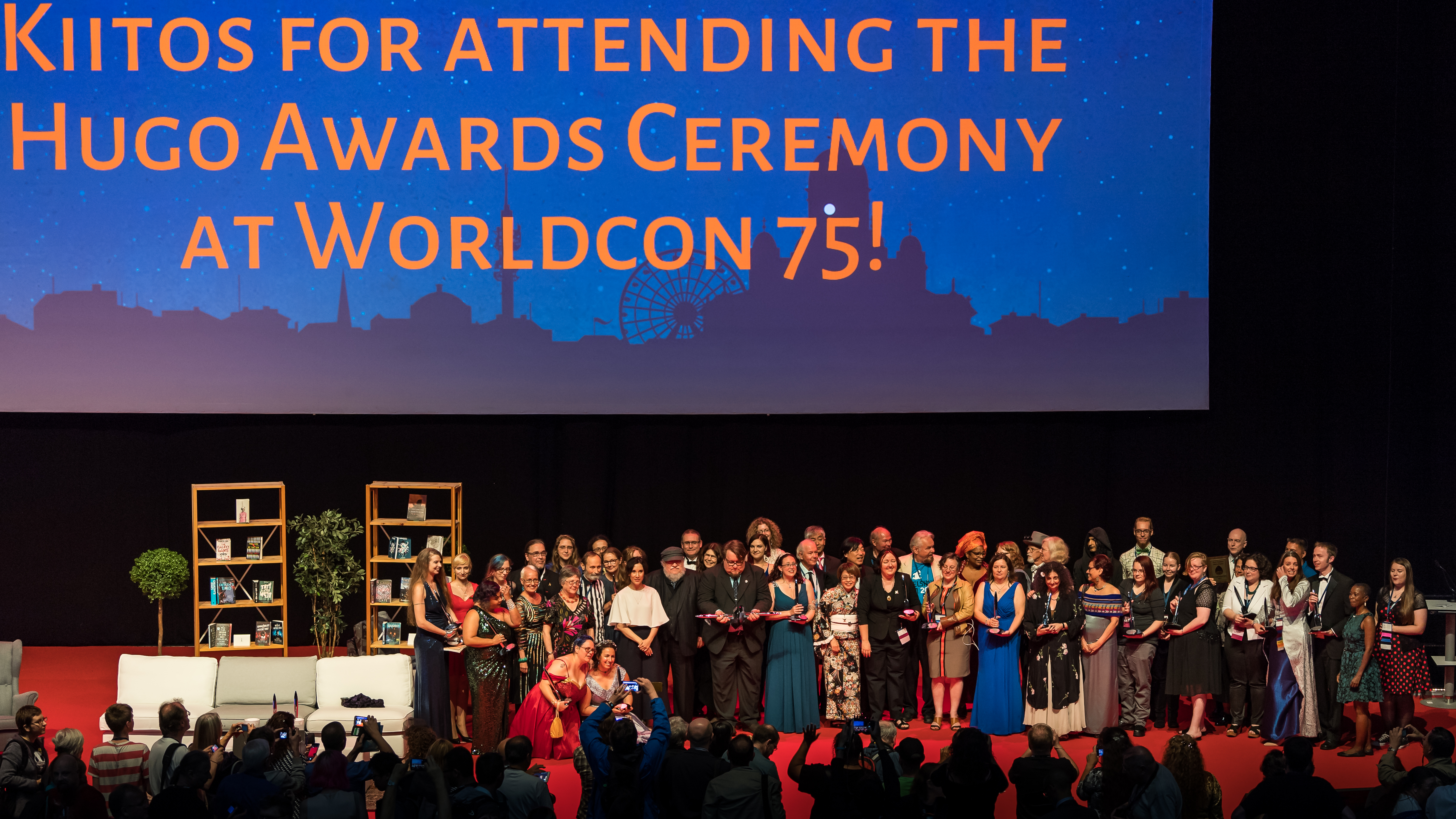 The big group photo of all the participants in Hugo Award Ceremony 2017.